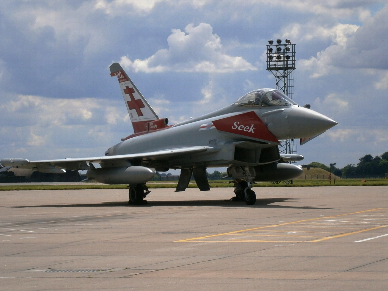 41 Squadron Typhoon ZK315 with Centenary tailfin